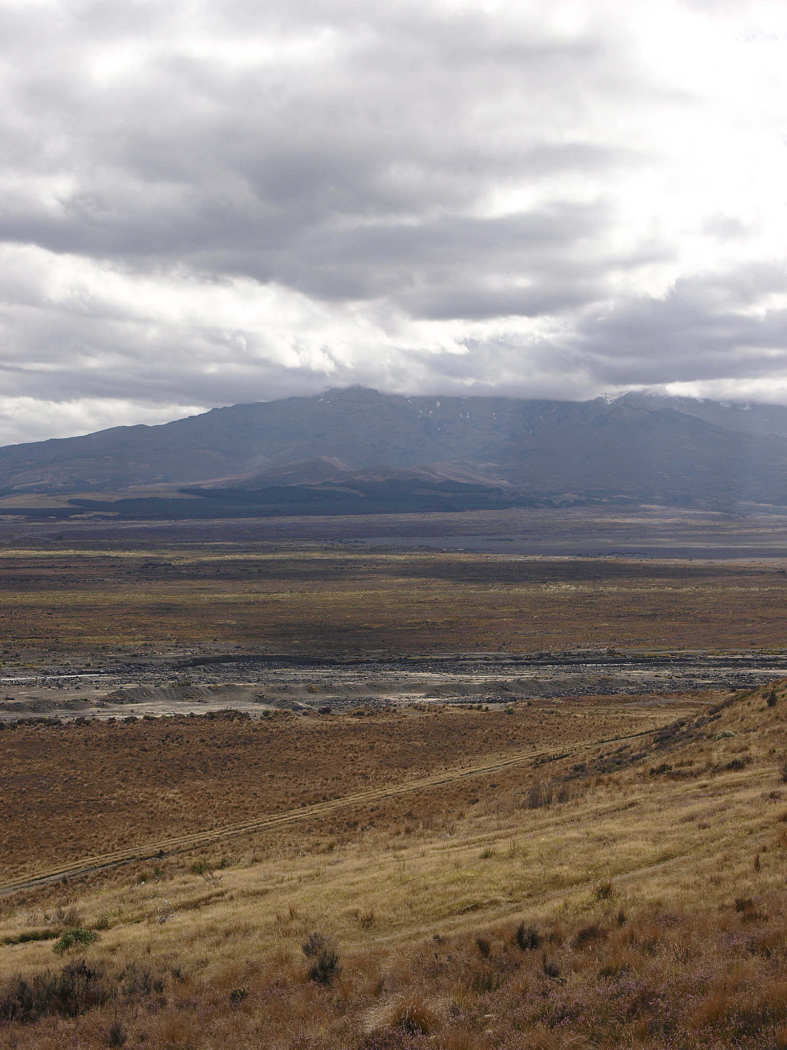 Mount Ruapehu and Rangipo Desert, North Island, New Zealand